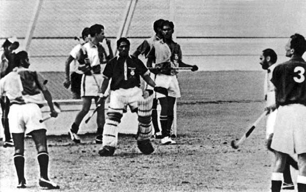 Rome, Olympic Velodrome. The final for the men's field hockey tournament at the 17th Olympic games in Rome; contestants were the national field hockey teams of Pakistan and India. Pakistan eventually went on winning 1-0 and conquered the gold medal.